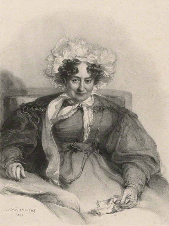 Sabrina Bicknell, aged 75. Engraved by Richard James Lane, based on 1833 portrait by Stephen Poyntz Denning. Held at National Portrait Gallery.